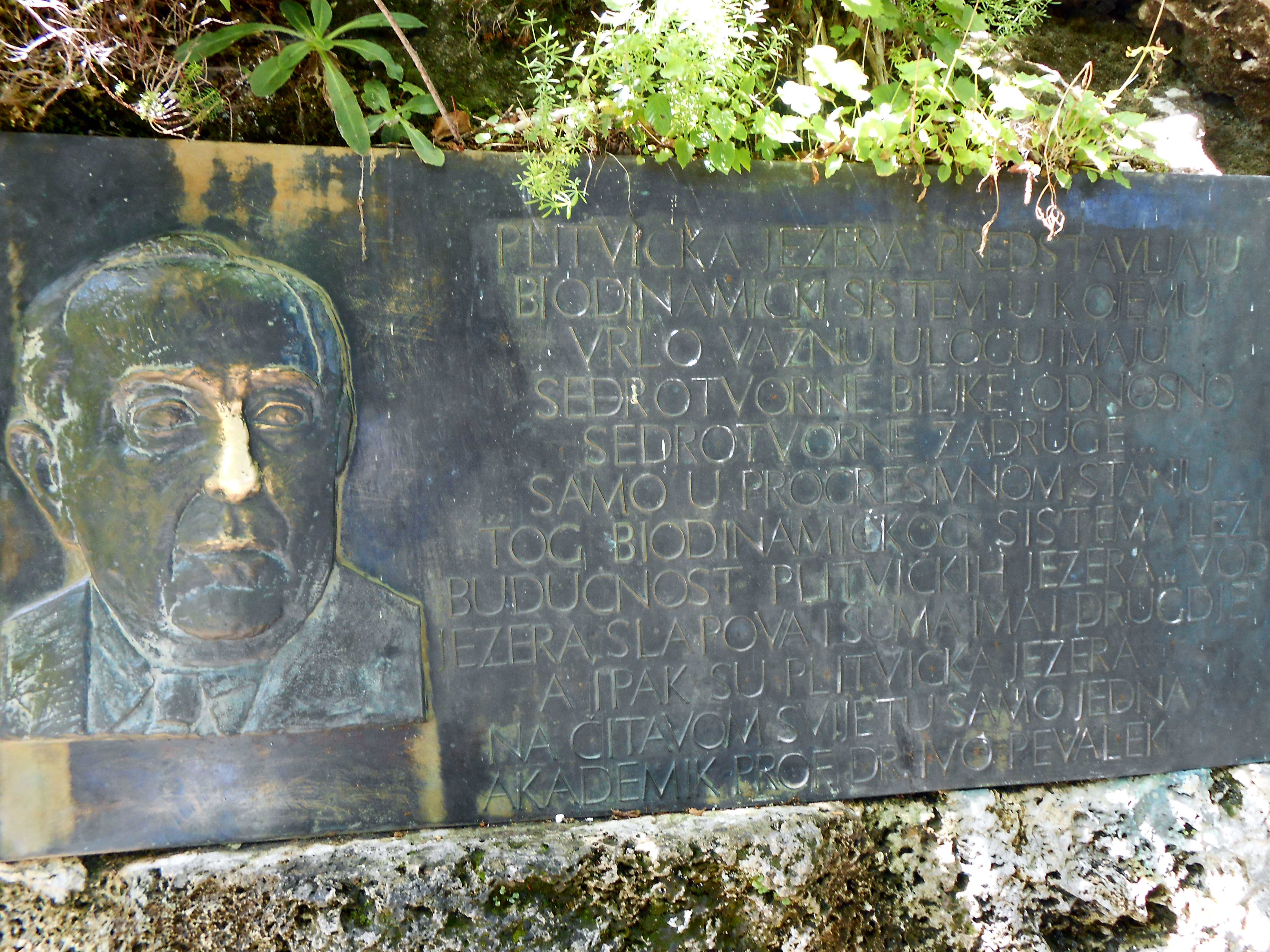 Ivo Pevalek plaque in the Plitvice.